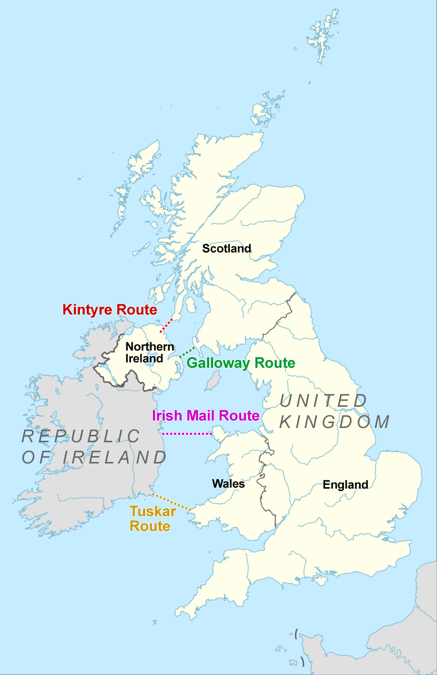 Map showing proposed routes of the four Irish Sea tunnel routes